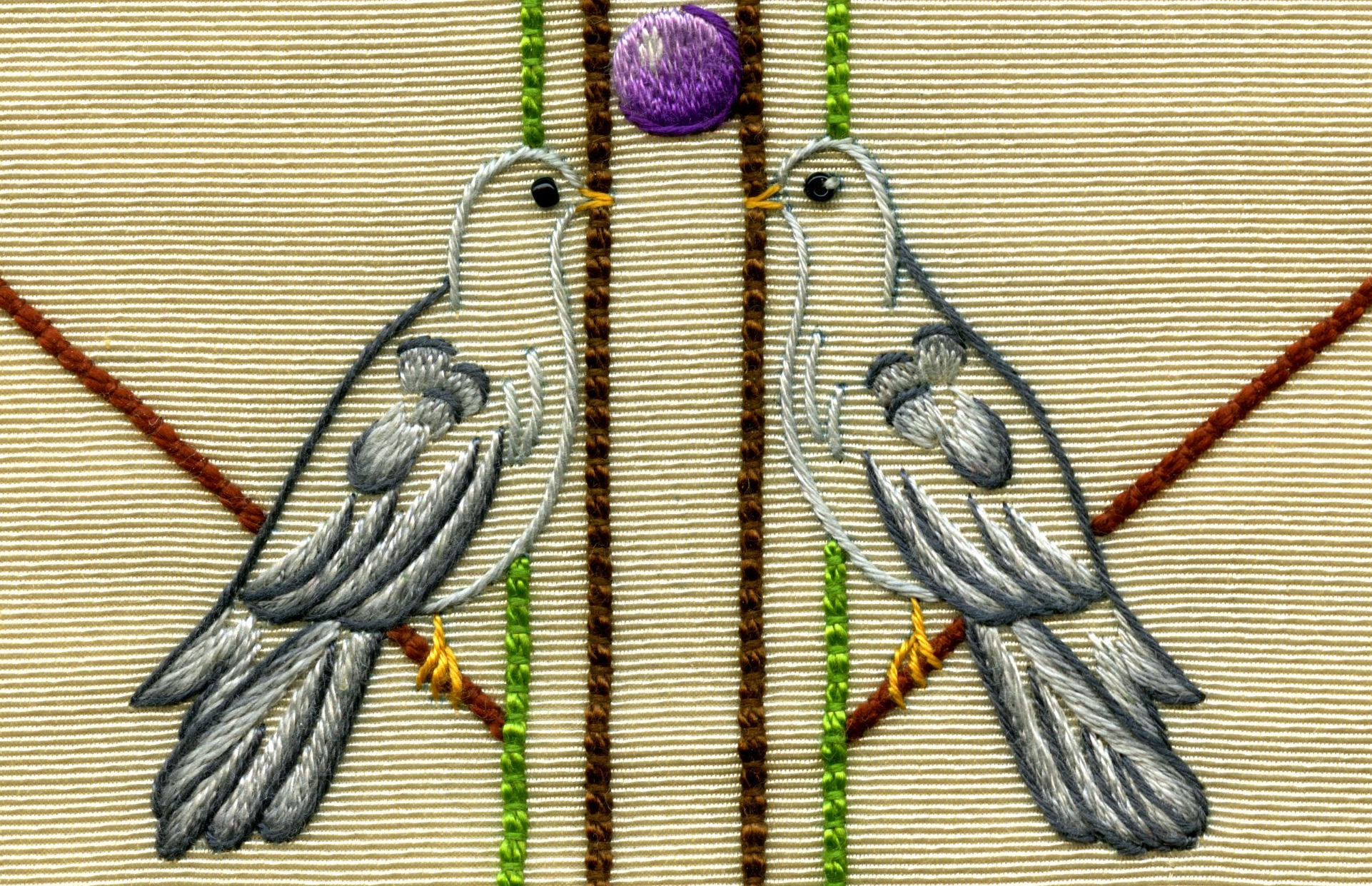 Embroidery on silk rep